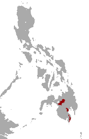 Mindanao Gymnure (Podogymnura truei) range